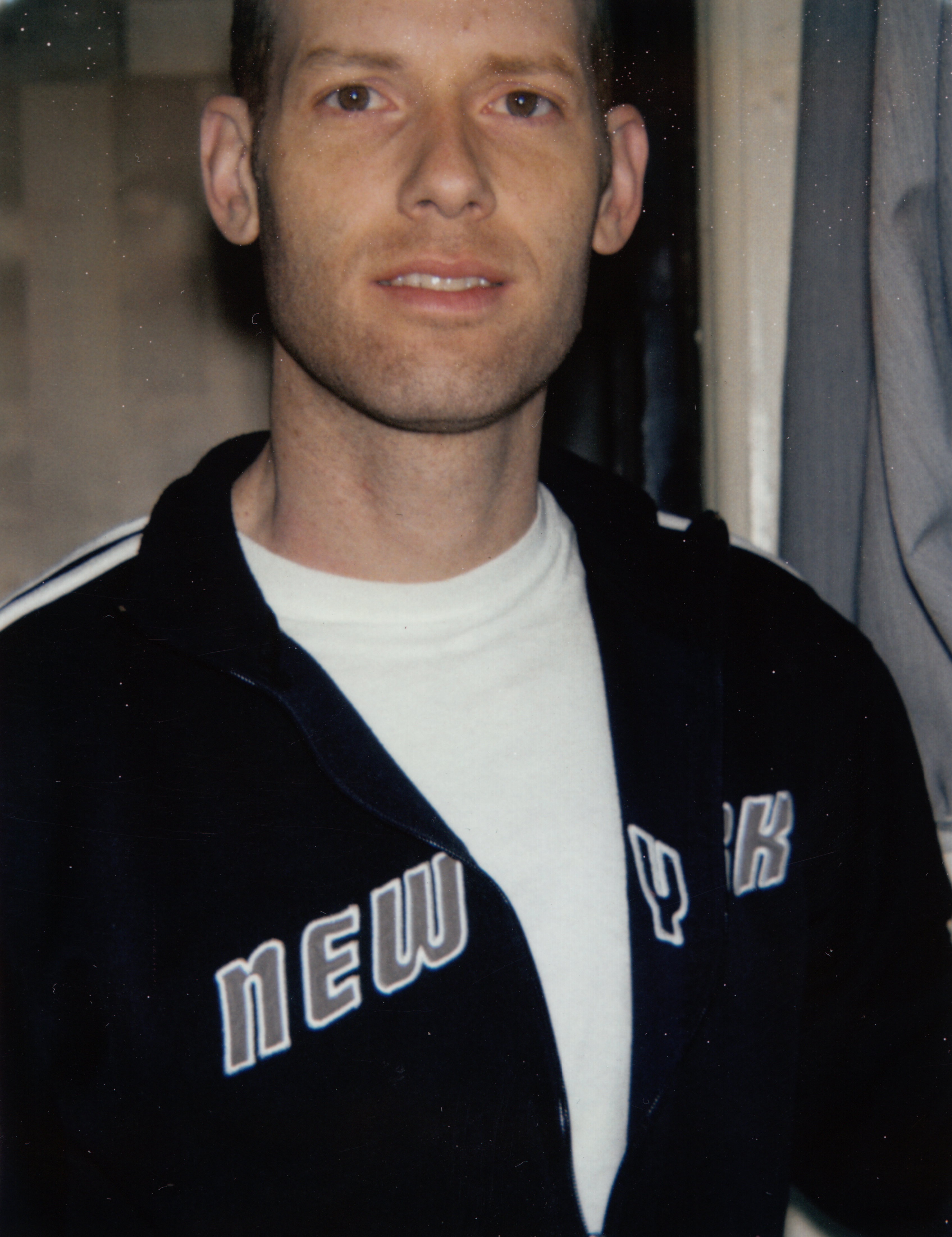 Polaroid of Carter in New York City